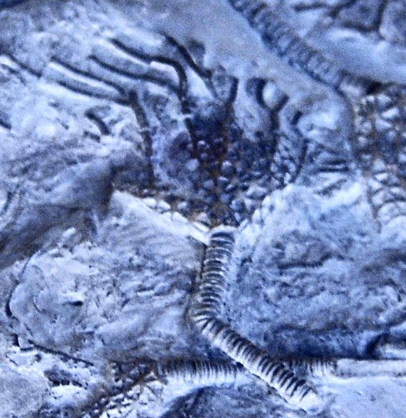 Crop of file in filename